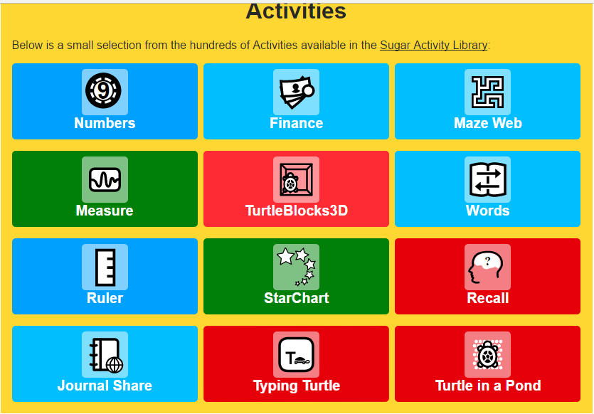 This is the example which provides different activities in Sugar.